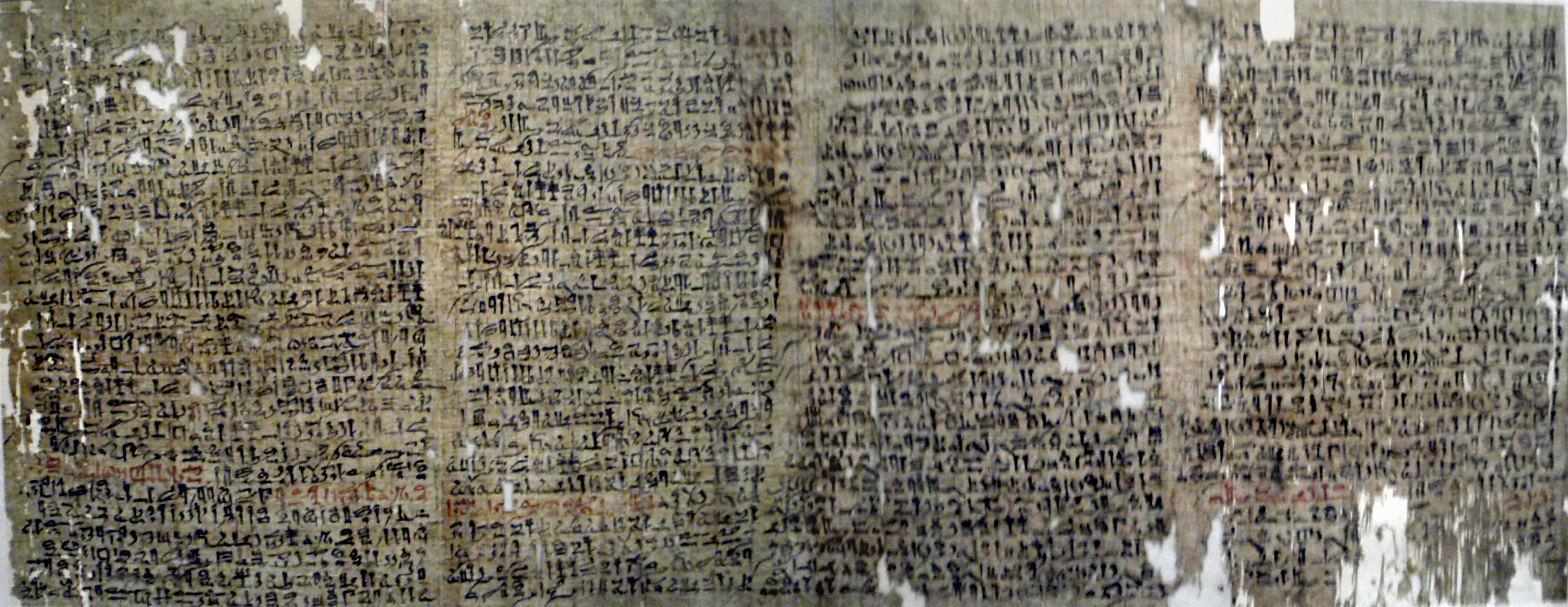 Merged photos depicting a copy of the Ancient Egyptian papyrus commonly known as "The Westcar Papyrus", sometimes also known by the longer name "Three Tales of Wonder from the Court of King Khufu", written in hieratic text. Photo(s) taken at the Altes Museum, Berlin, later merged and cropped using PhotoShop. Catalog number: P 3033.